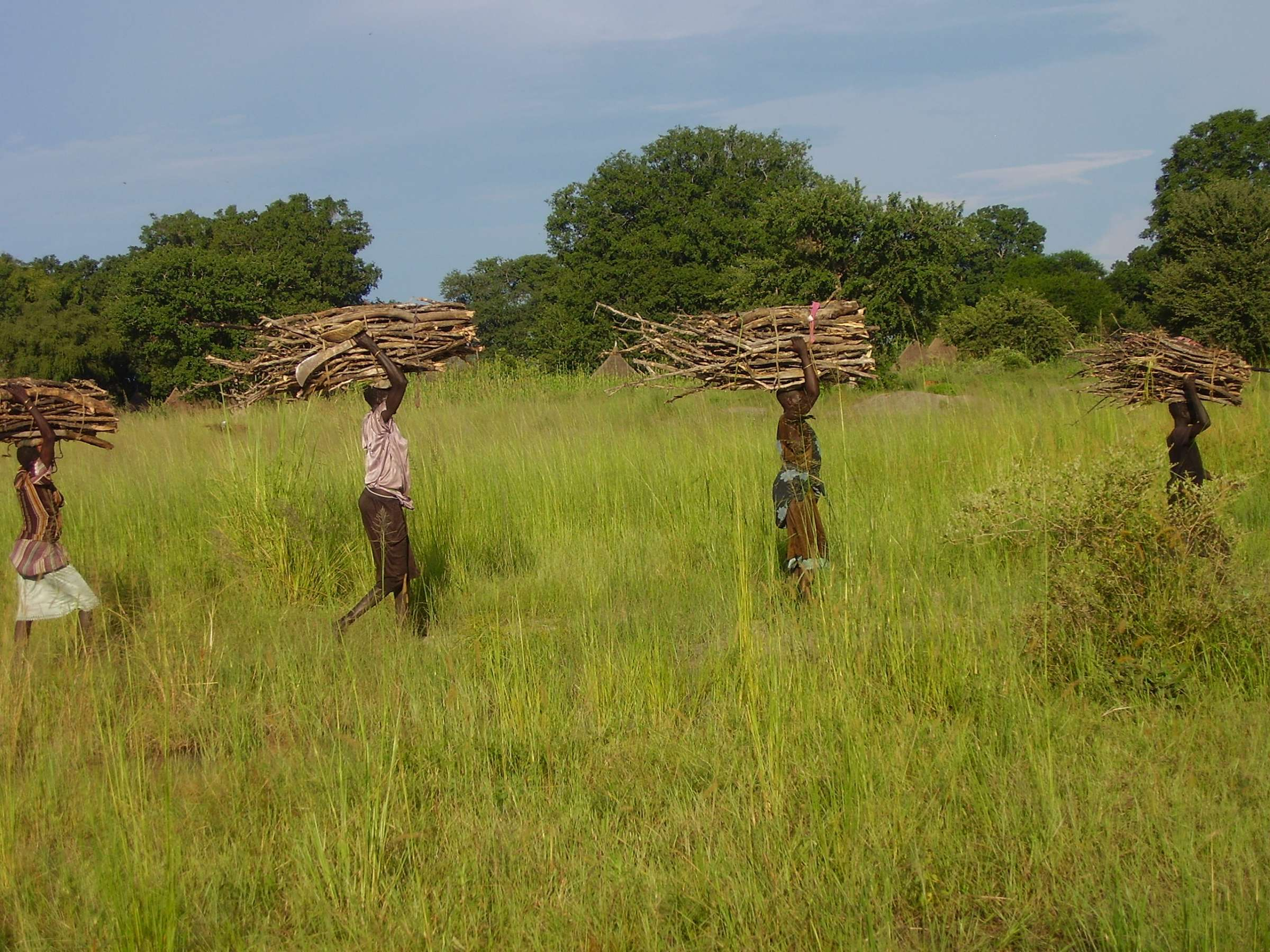 Women gathering wood — South Sudan.